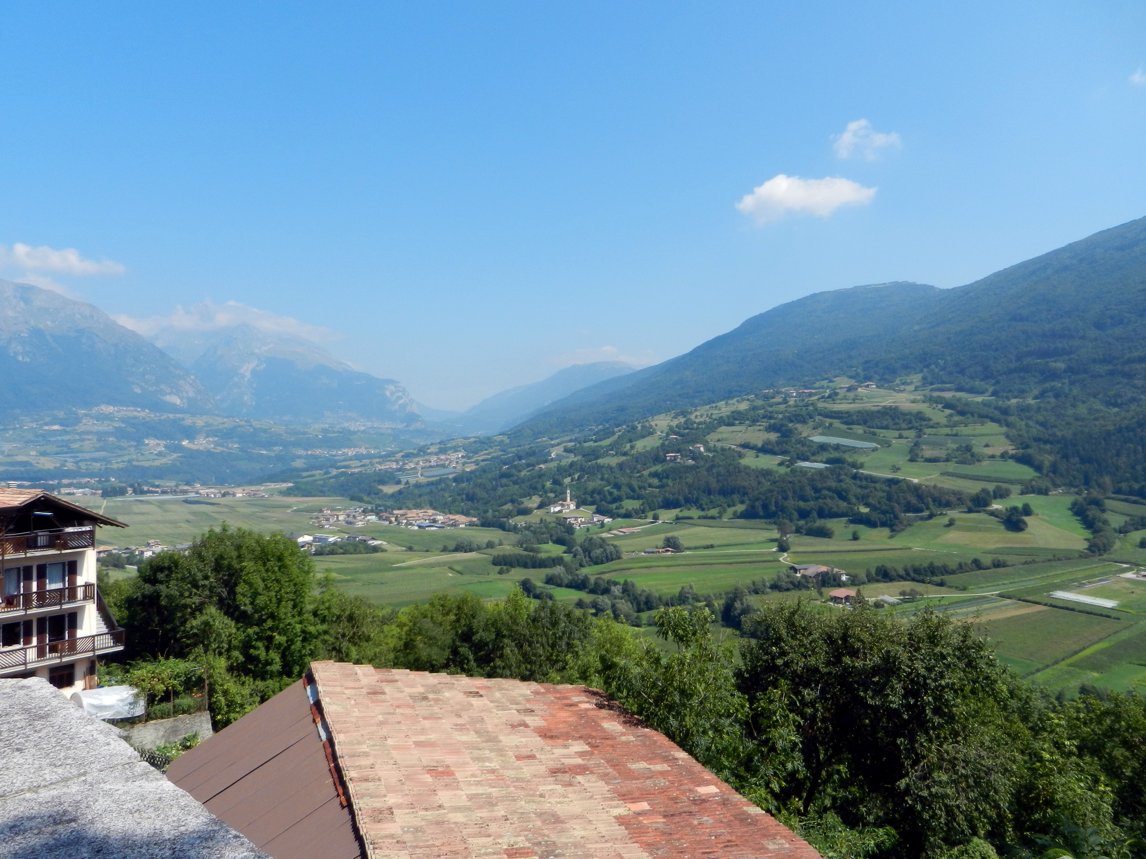 Landscape of Giudicarie viewed from Favrio, a frazione of Fiavè.